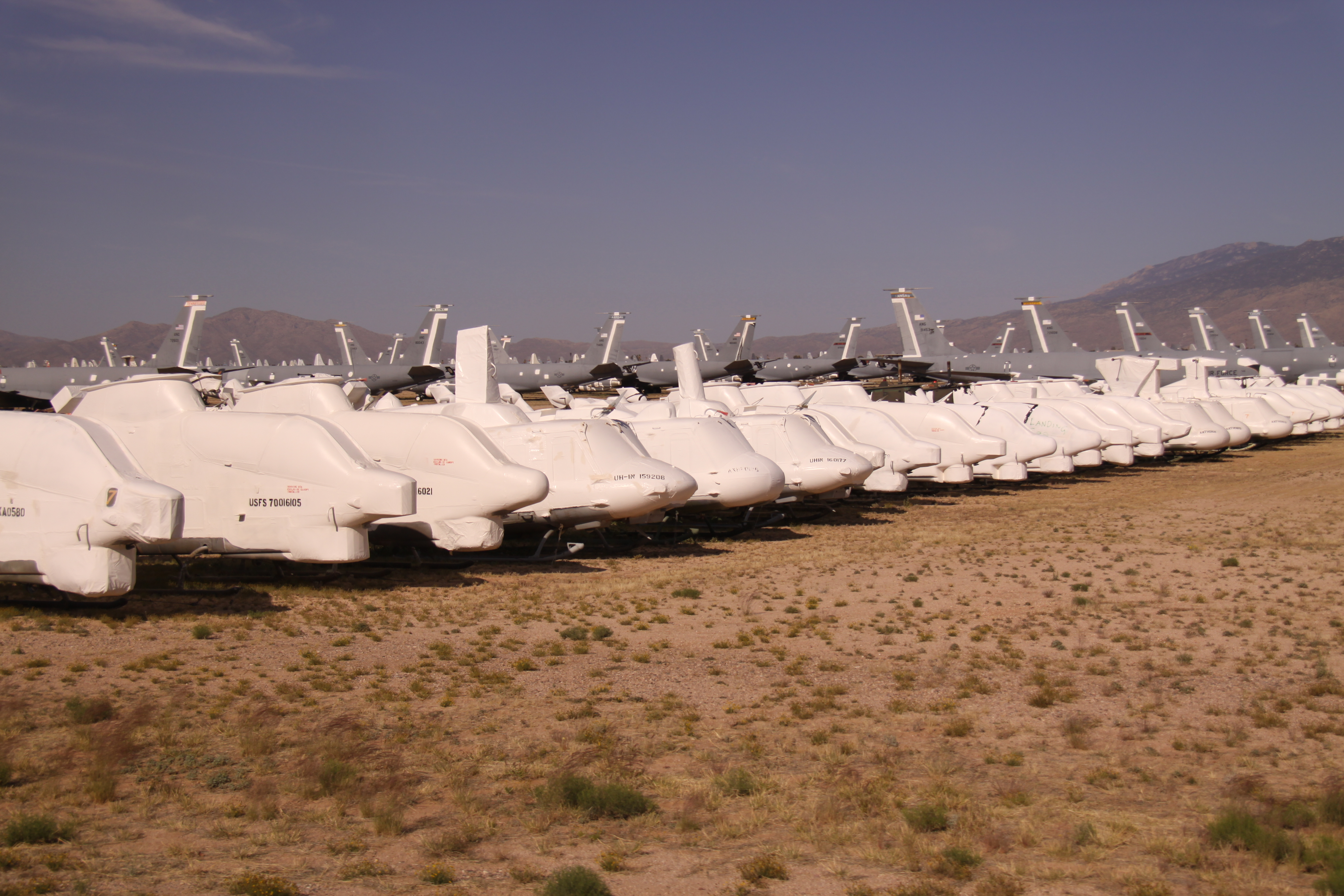 At Davis Monthan AFB